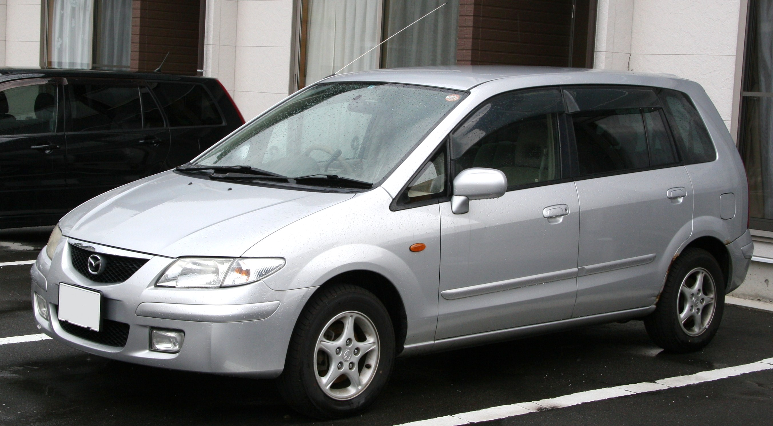 Mazda Premacy